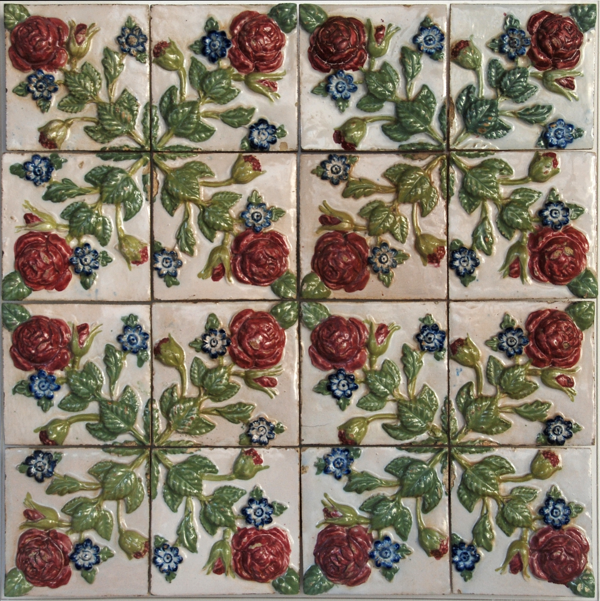 Molded faience. Porto, end of 19th century. Museu Nacional do Azulejo, Lisbon, Portugal